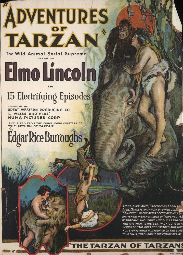 Poster for The Adventures of Tarzan (1921). The wild animal serial supreme starring Elmo Lincoln in 15 electrifying episodes. Produced by Great Western Producing Co. for Weiss Brothers' Numa Pictures Corp. Picturized from the concluding chapters of The Return of Tarzan by Edgar Rice Burroughs. Photolithograph.